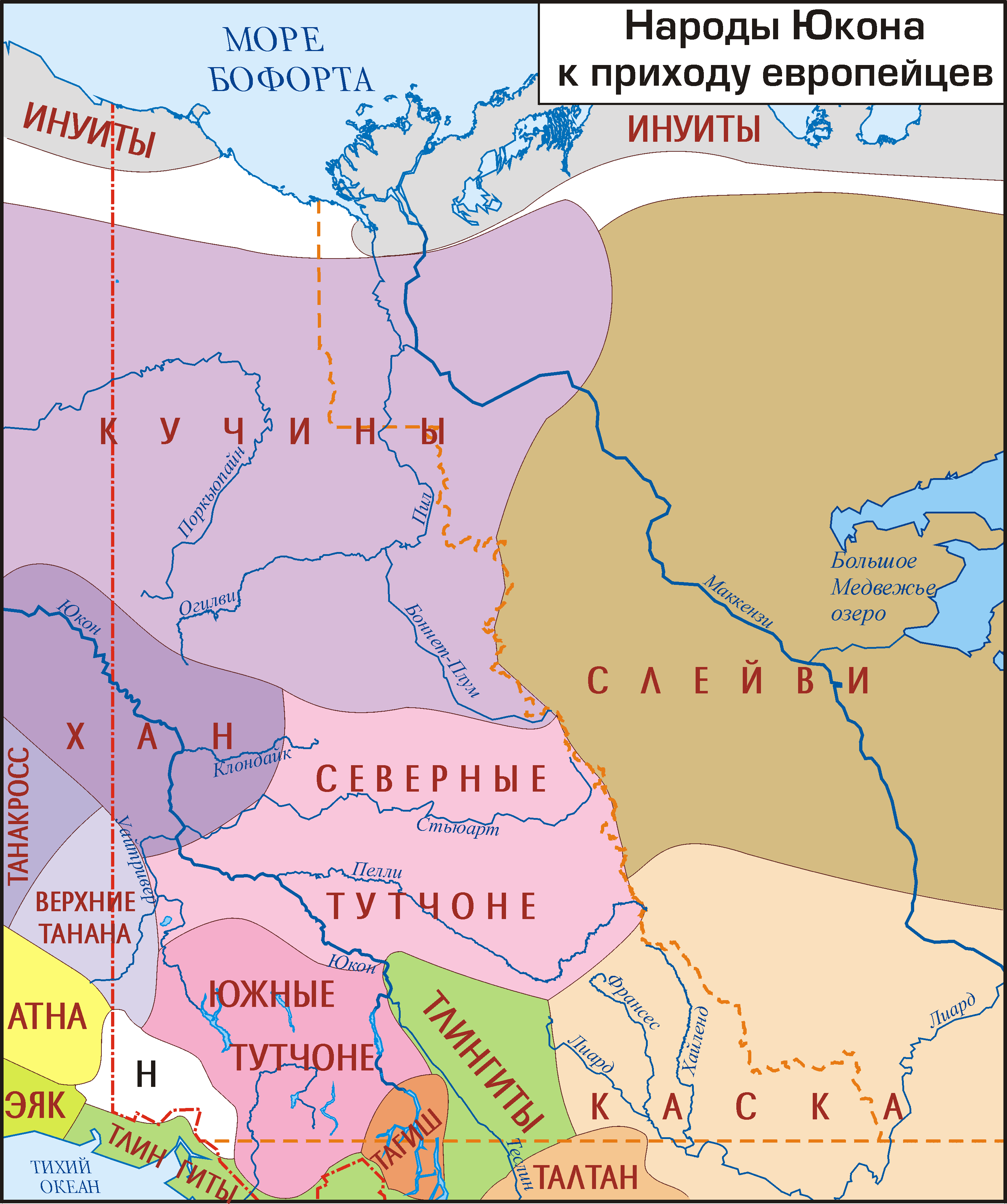 Map of ethnic groups of Yukon before arrival of Europeans, circa 19 c. In Russian language. Source: Wurm, Stephen A.; Mühlhäusler, Peter; Tryon, Darrell T. (eds). Atlas of languages of intercultural communication in the Pacific, Asia, and the Americas, Volume I. (Trends in Linguistics, Documentation Series, Volume 13). Berlin/New York: Walter de Gruyter, 1996. ISBN 3110134179. Карты 120, 123, 127.